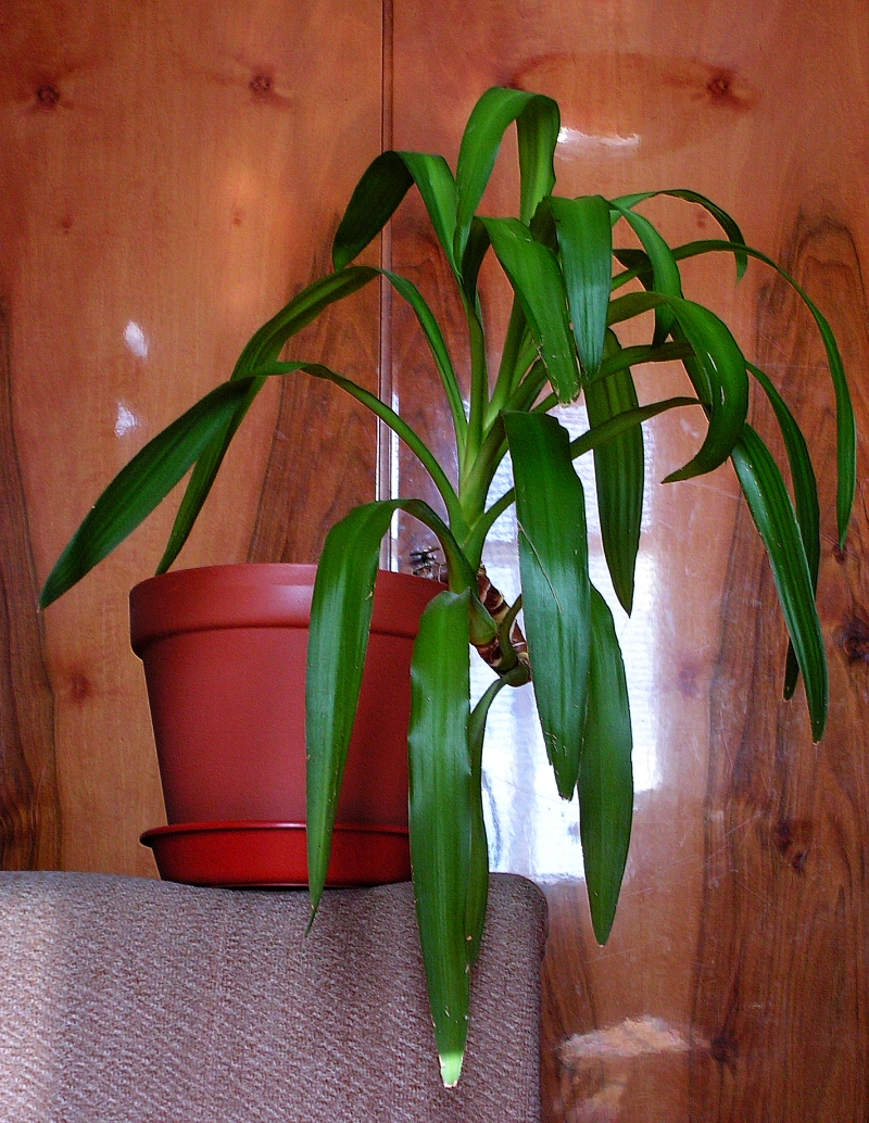 Yucca gigantea as houseplant.